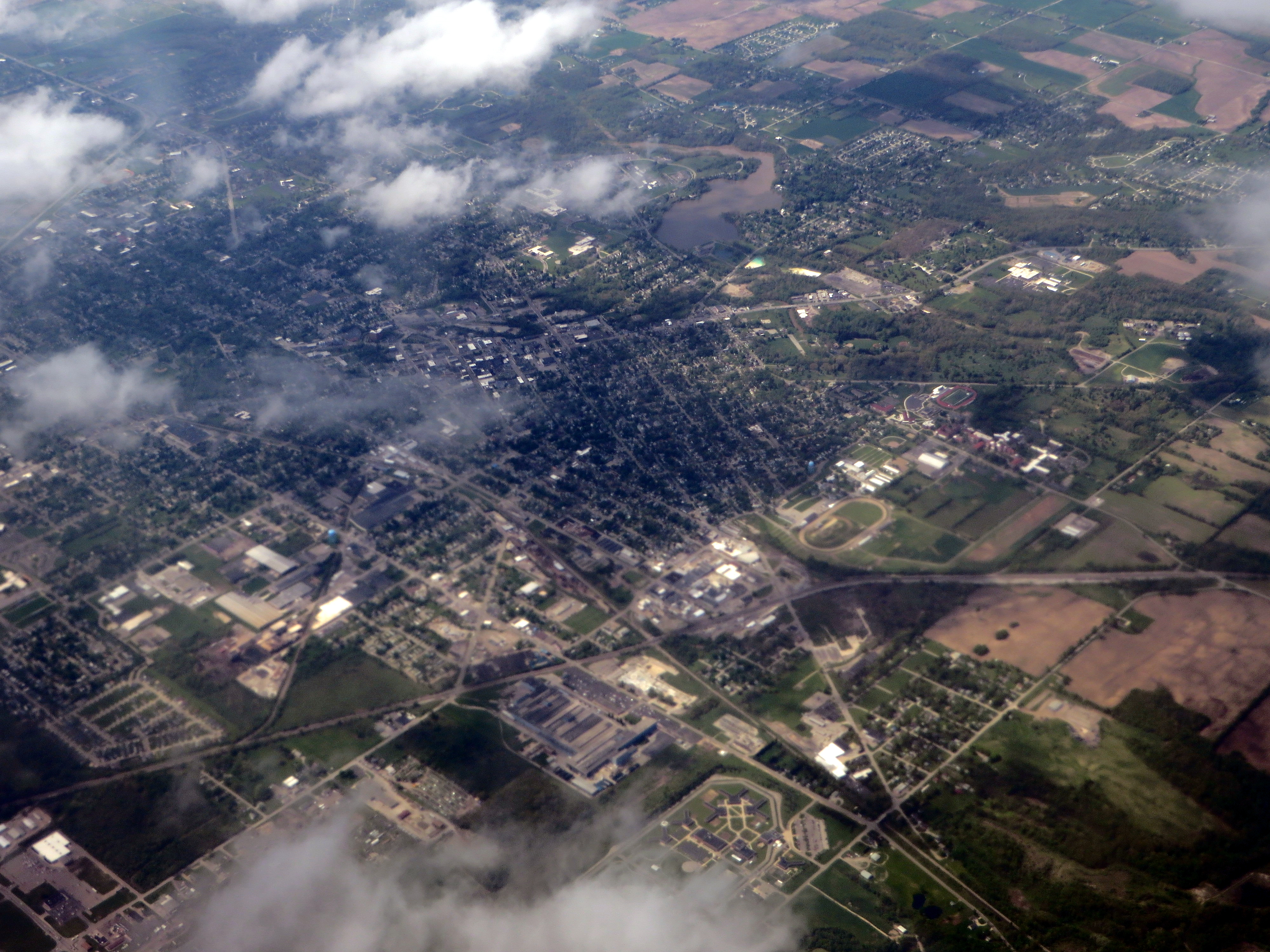 Adrian is a city in the U.S. state of Michigan and the county seat of Lenawee County. The population was 21,133 at the 2010 census. Adrian was founded on June 18, 1826 by Addison Comstock, promoter of the Erie and Kalamazoo Railroad. In the late 19th century through early 20th century Adrian was known as the "fence capital of the world," when J. Wallace Page invented the first successful wire fence. Throughout this period, Adrian was one of the first fencing manufacturers in the world and its fences were shipped as far as New York, Berlin, Asia, and Africa. Adrian is sometimes referred to as "the Maple City" due in part to the many sugar maple and other maple tree species found throughout the city. The Adrian High School sports teams are known as the "Adrian Maples" and several local businesses use maple in their names.